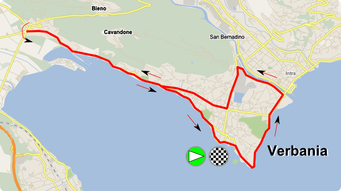 Map of stage 1 of Giro donne 2018.